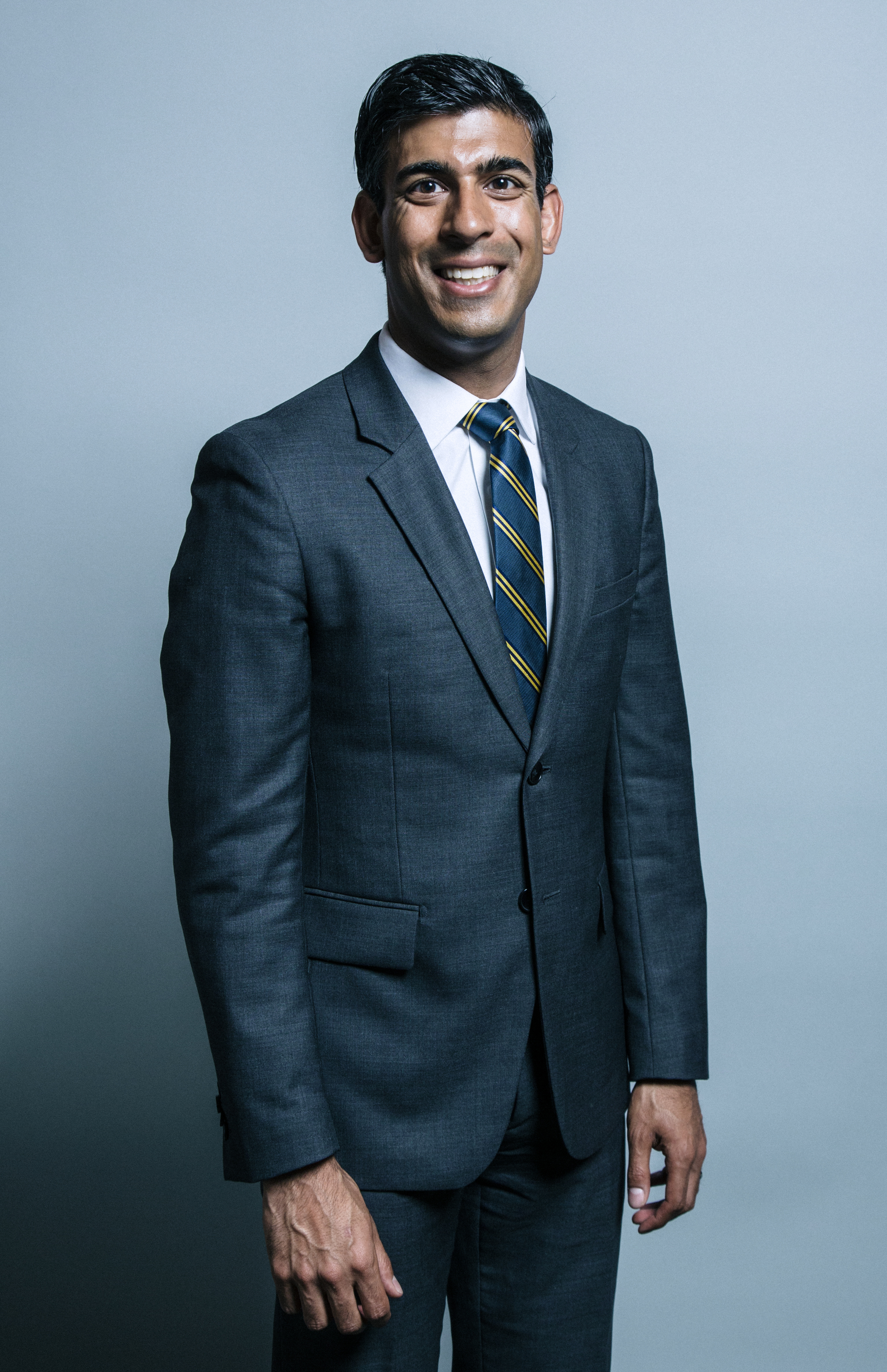 Official portrait of Rishi Sunak